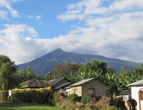 highest volcanic mountain in Arusha